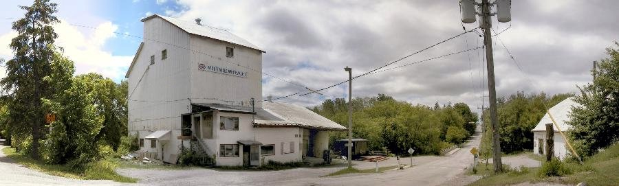 Whitevale Mill and Bridge